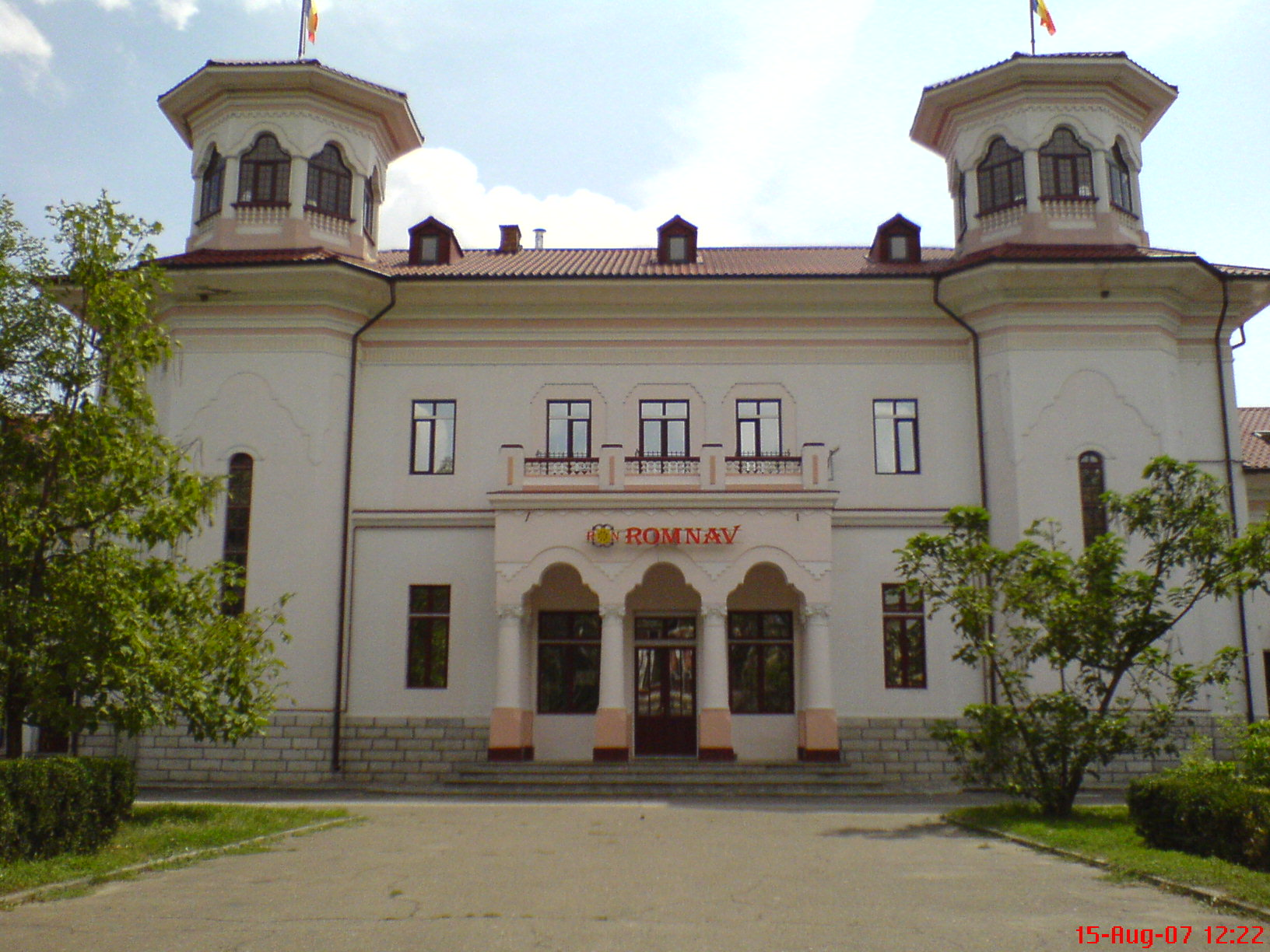 The Headquarters of the Naval Authority - Braila